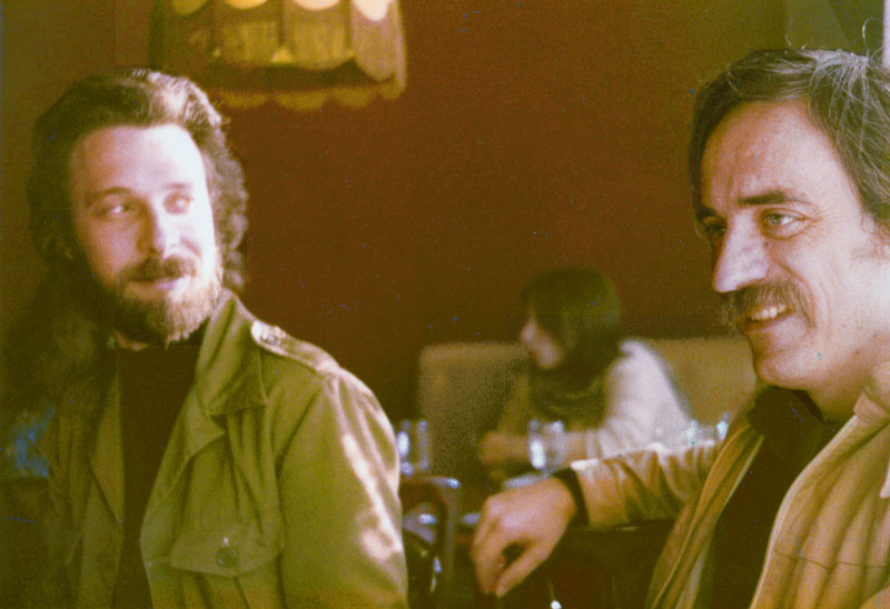 Walter Cavazzuti and Michel Fuzellier : Quick Sand Productions founders